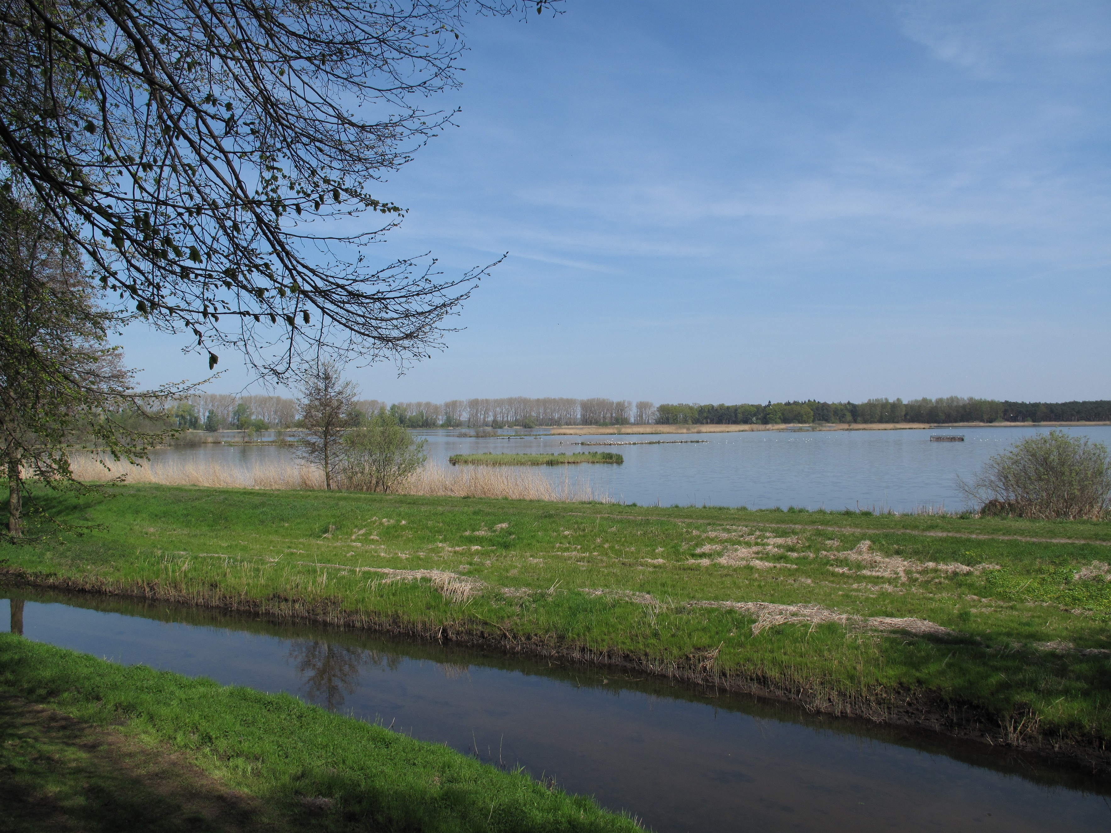 Stobber in Altfriedland, a village of the municipality Neuhardenberg. The river is running here directly alongside the Kietzer See (lake), a Special European Protection Area (SPA) for the conservation of wild living birds (Birds Directive). The Stobber (also called Stöbber) is the central river in the hill country „Märkische Schweiz“ and the Märkische Schweiz Nature Park, Brandenburg, Germany. The stream runs over a distance of 25 kilometers from the lowland moor and source area Rotes Luch towards the northeast through Buckow to the Oderbruch. The Stobber flows at Neuhardenberg to the „Friedländer Strom“, whose waters run over some canals to the Oder River → Baltic Sea. On a roughly 13 kilometer long route of its course there is designated the nature protection area „Naturschutzgebiet Stobbertal“.